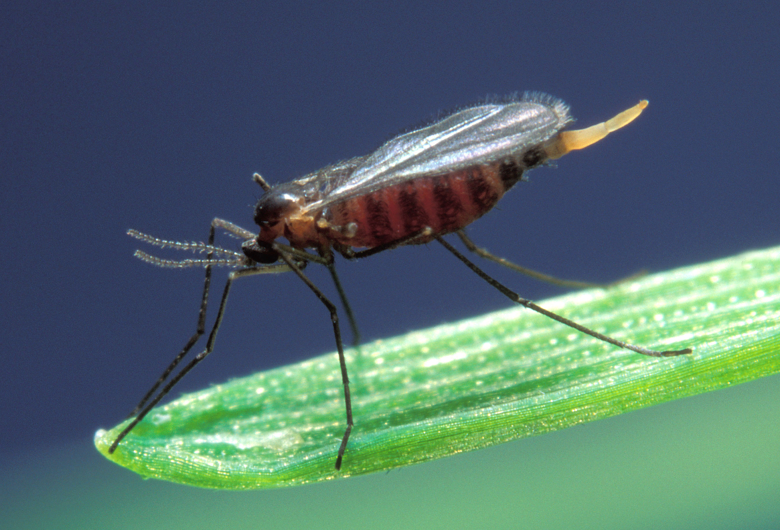 Hessian fly, Mayetiola destructor Photo by Scott Bauer.